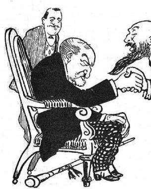 Domènec Sanllehy i Alrich, caricature in La Esquella de la Torratxa magazine of 20.3.1908